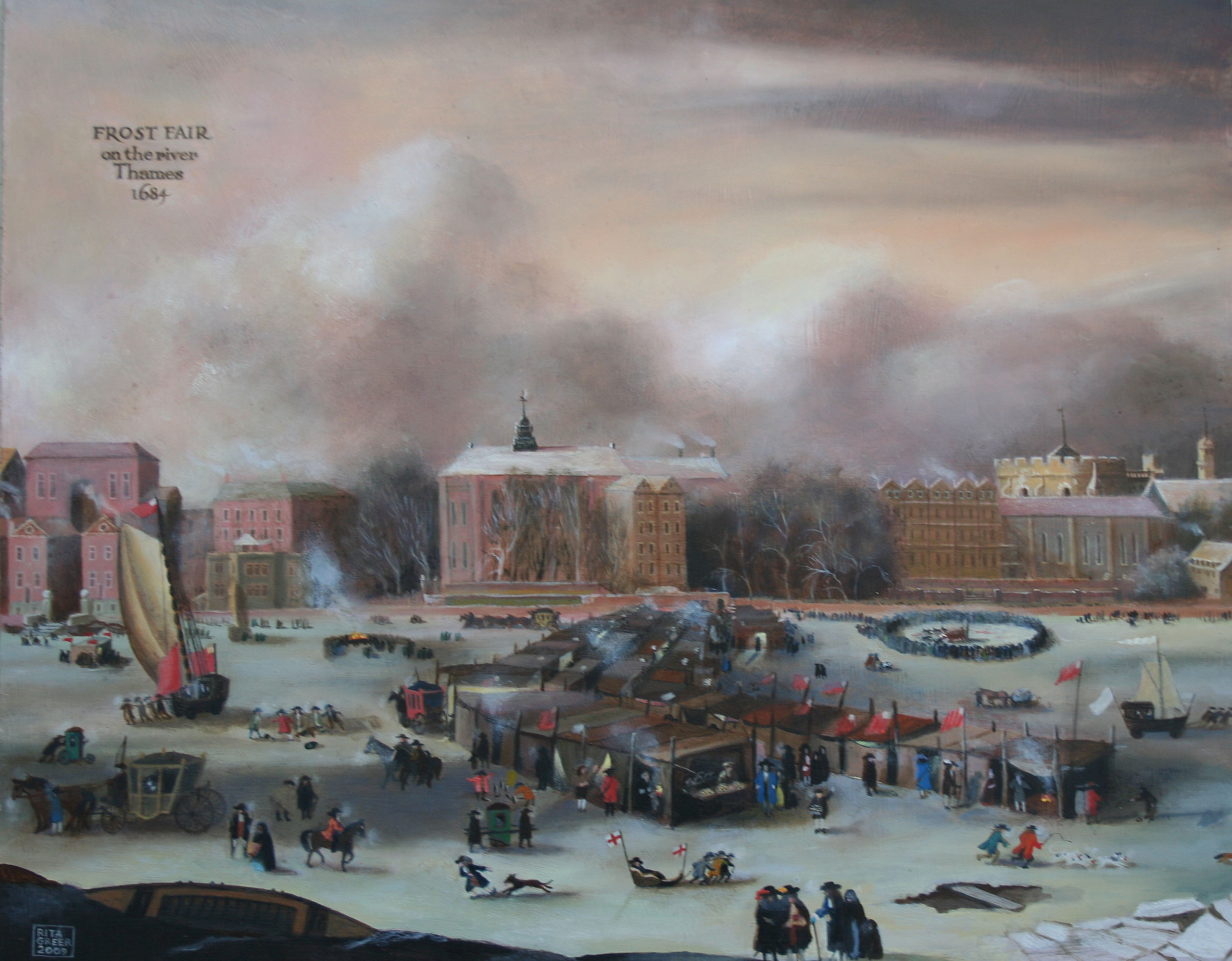 'The Frost Fair'. The winter of 1683-4 was exceptionally severe. The Thames froze over allowing a tented city to be set up for stalls, booths, shops and entertainments. The 2000 or so watermen made their boats into sleds or put wheels on them and pulled their customers across the ice. Oil on board. Rita Greer 2009.